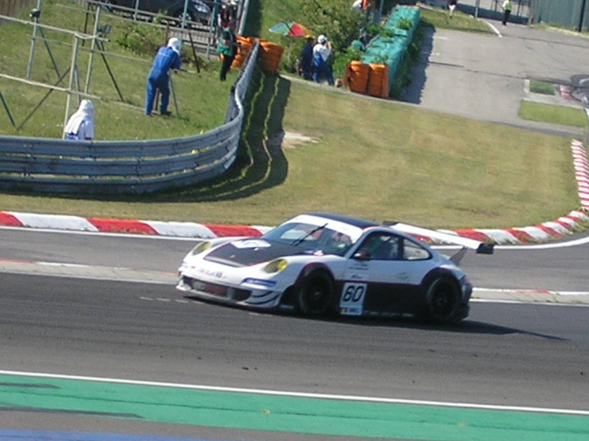 Richard Westbrook driving a Porsche 997 GT3 RSR at 2009 FIA GT Budapest City